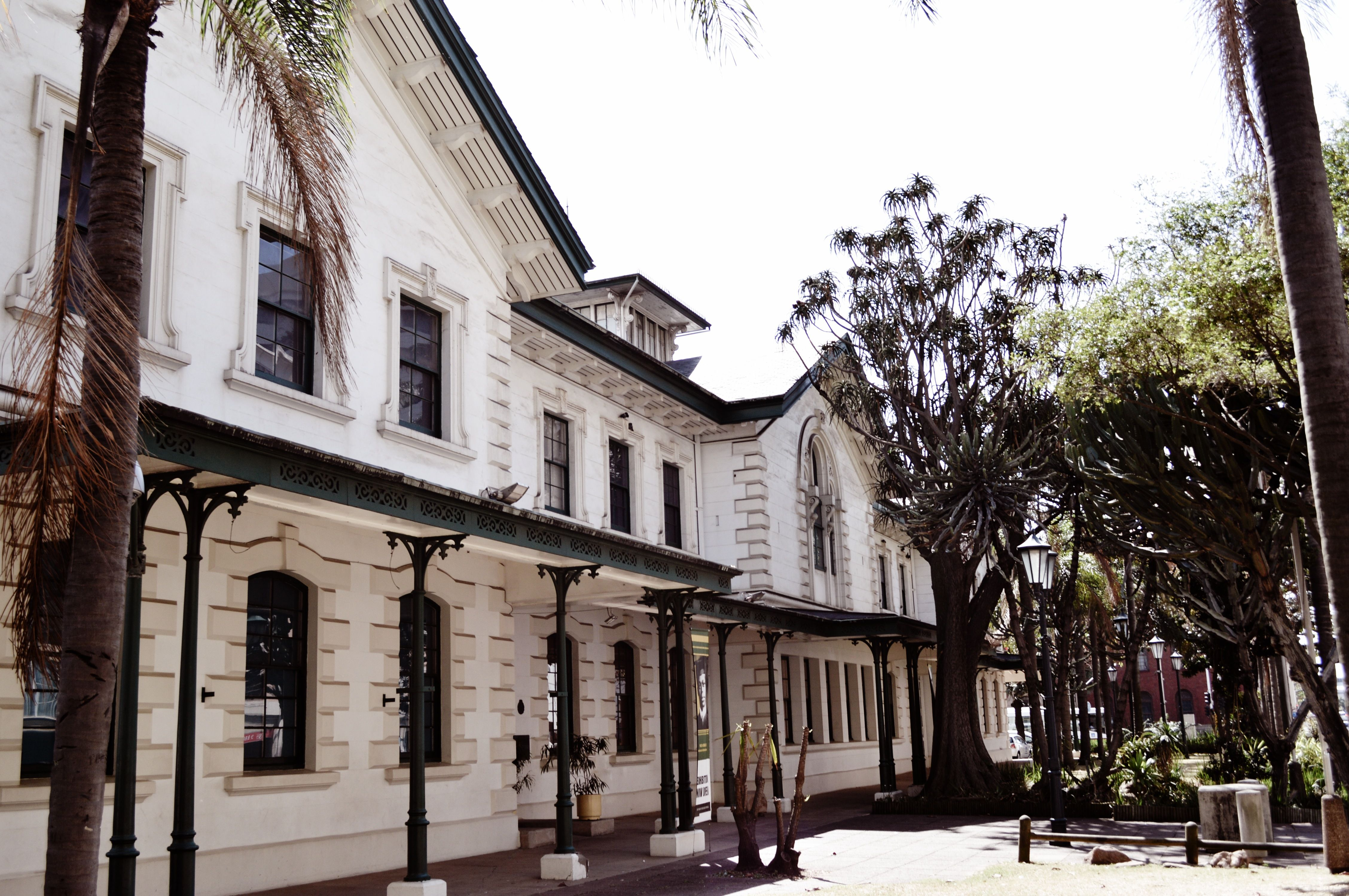 Local History Museum, Durban This media shows a South African Protected Site with SAHRA file reference 9/2/407/0018.